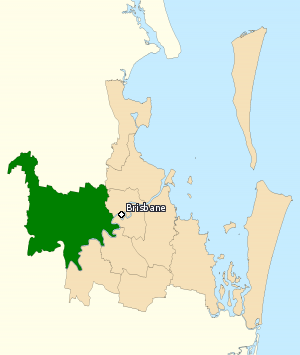 This image incorporates data that is: © Commonwealth of Australia (Australian Electoral Commission) 2009 Division of Ryan 2010